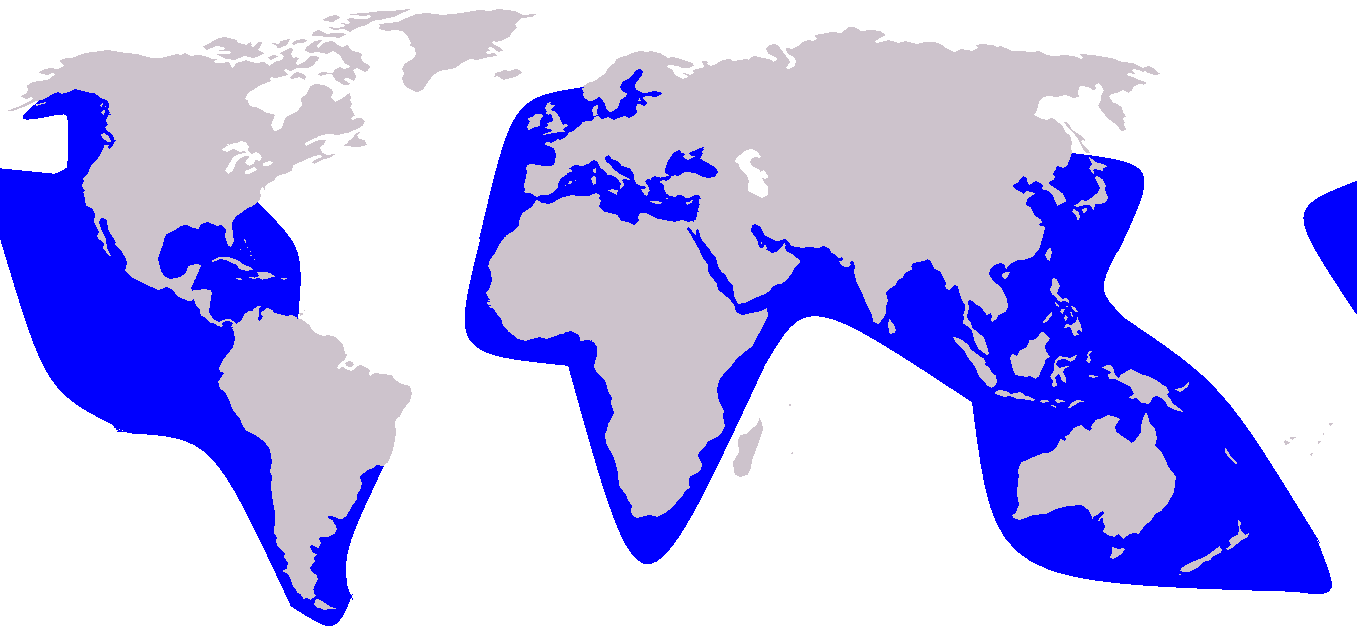 Habitat map False Killer Whale (Pseudorca crassidens), (C) User:Pcb21, 2004, User:Vardion 2003. See Wikipedia:WikiProject Cetaceans for further details